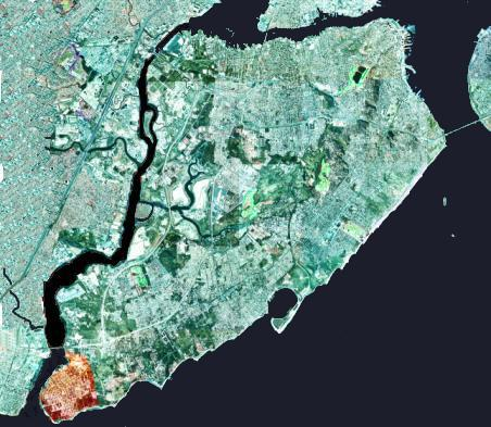 The neighborhood of Tottenville on Staten Island is shown highlighted in orange. Based on original public domain satellite photo courtesy of NY GIS. © 2004 Matthew Trump.